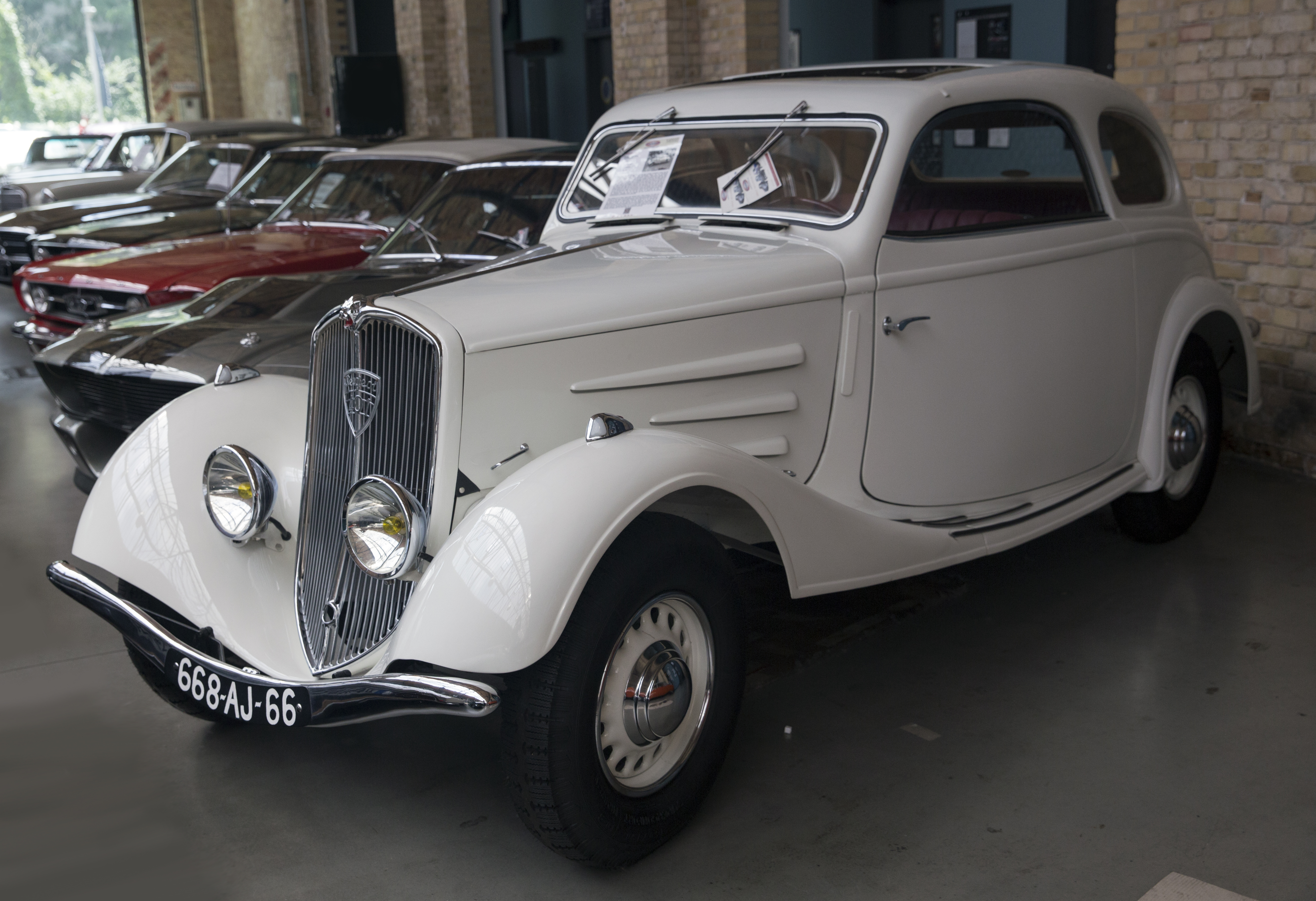 A 1935 Peugeot 401 D Coach Coupé (Meulemeester) at Berlin's Classic Remise. Only 70 were built with this body style; this is one of 3 remaining. 1720cc, 44CV, 100km/h.